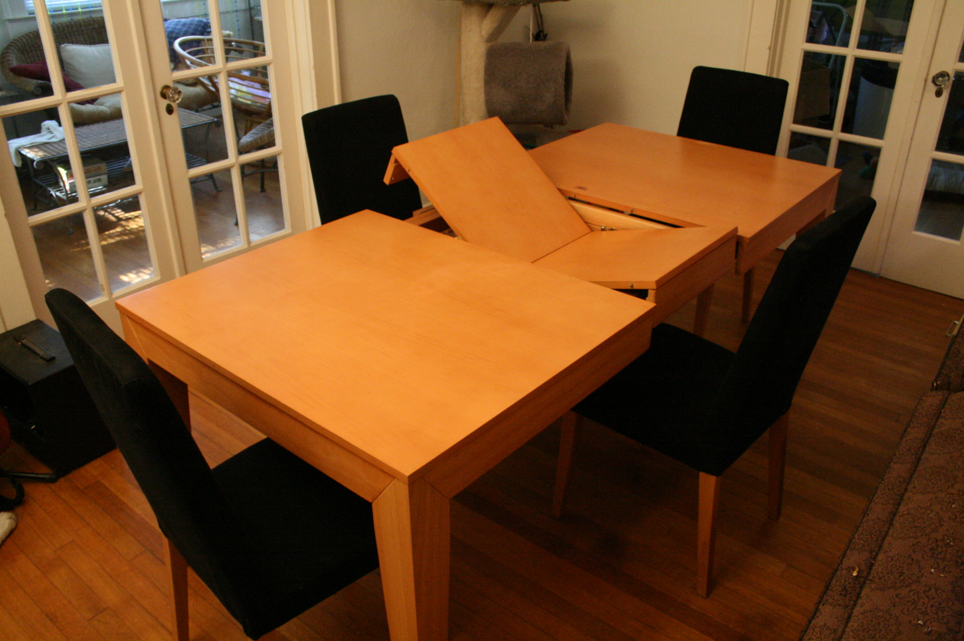 An expandable wooden table in the process of being expanded.